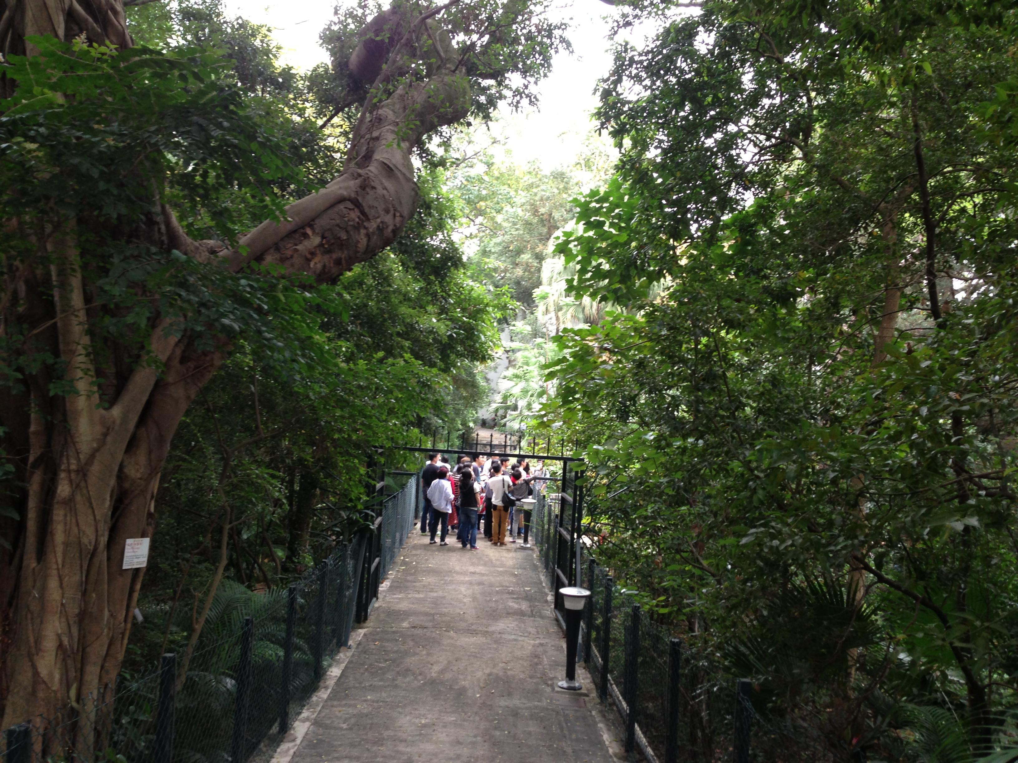 Hong Kong Observatory - Open Day 2013 (tour of the grounds)